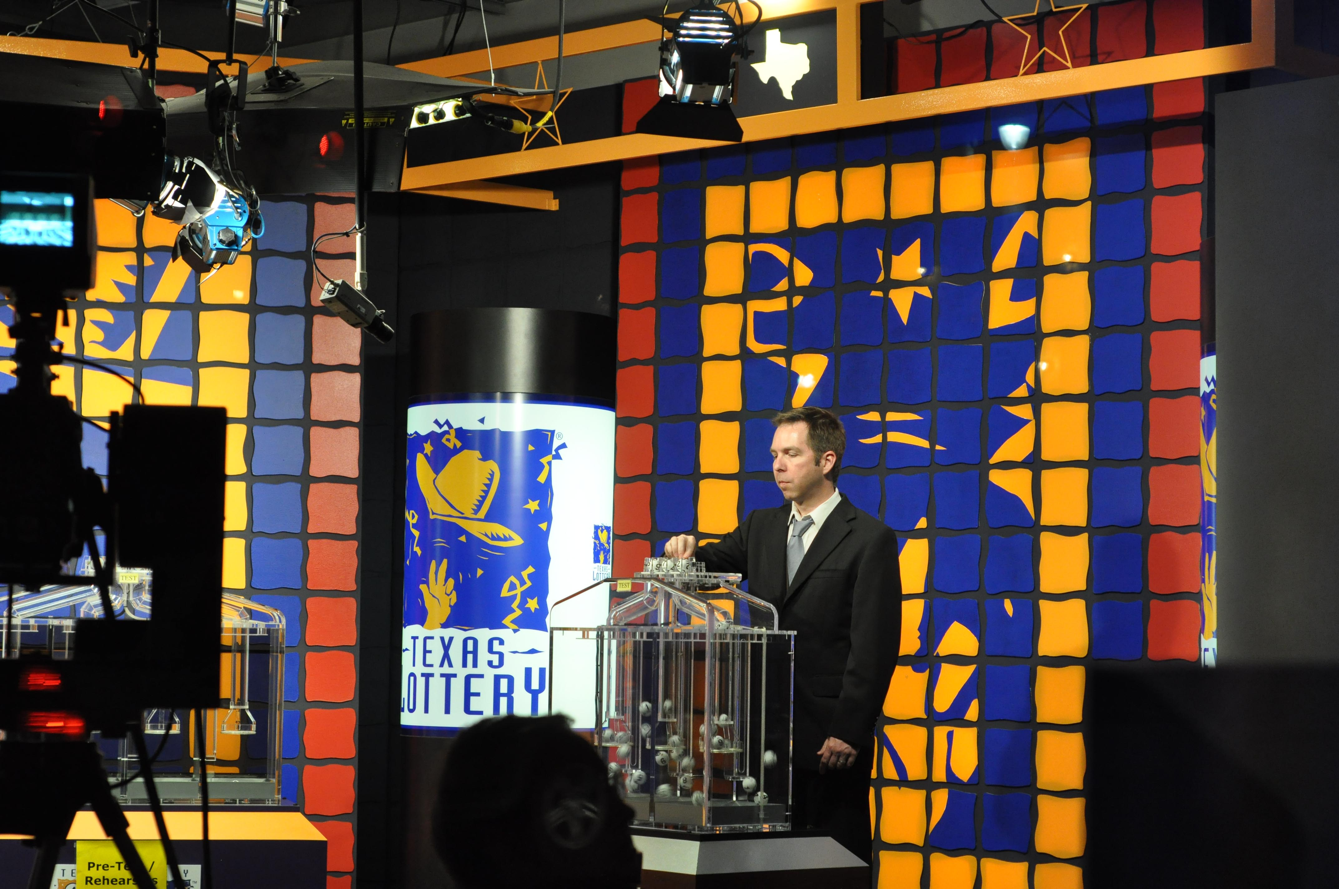 A drawing for the Texas Lottery, being conducted at the lottery's television studio in Austin.